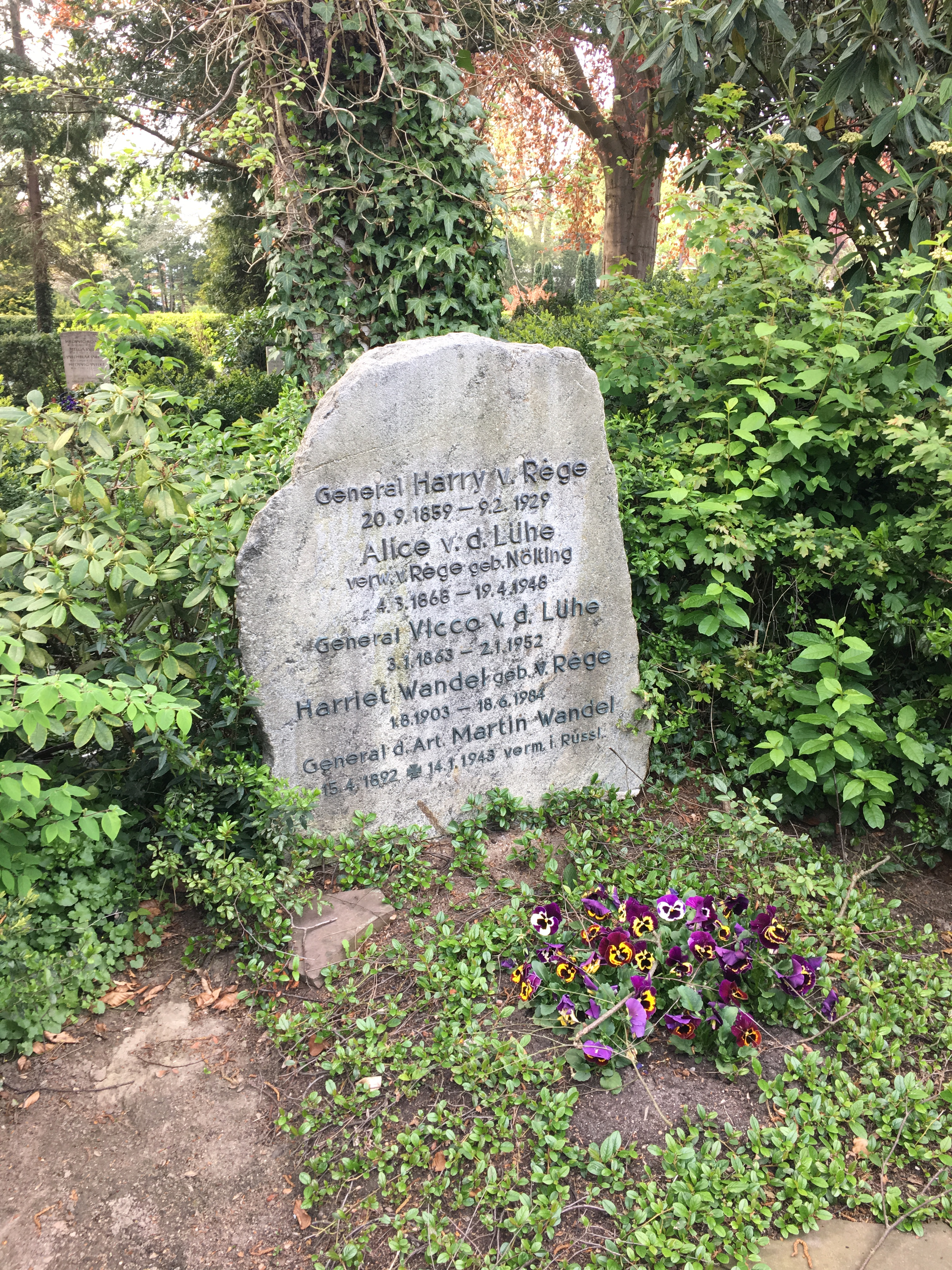 Graf of Gen. Harry von Rège and Gen. Vicco v. d. Lühe, Burgtorfriedhof, Lübeck. Memorial stone for Gen. Martin Wandel.